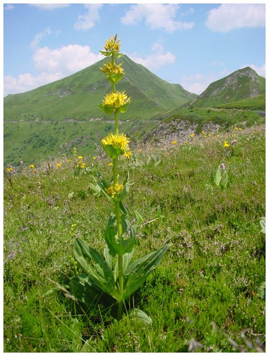 Yellow gentian near Puy Mary